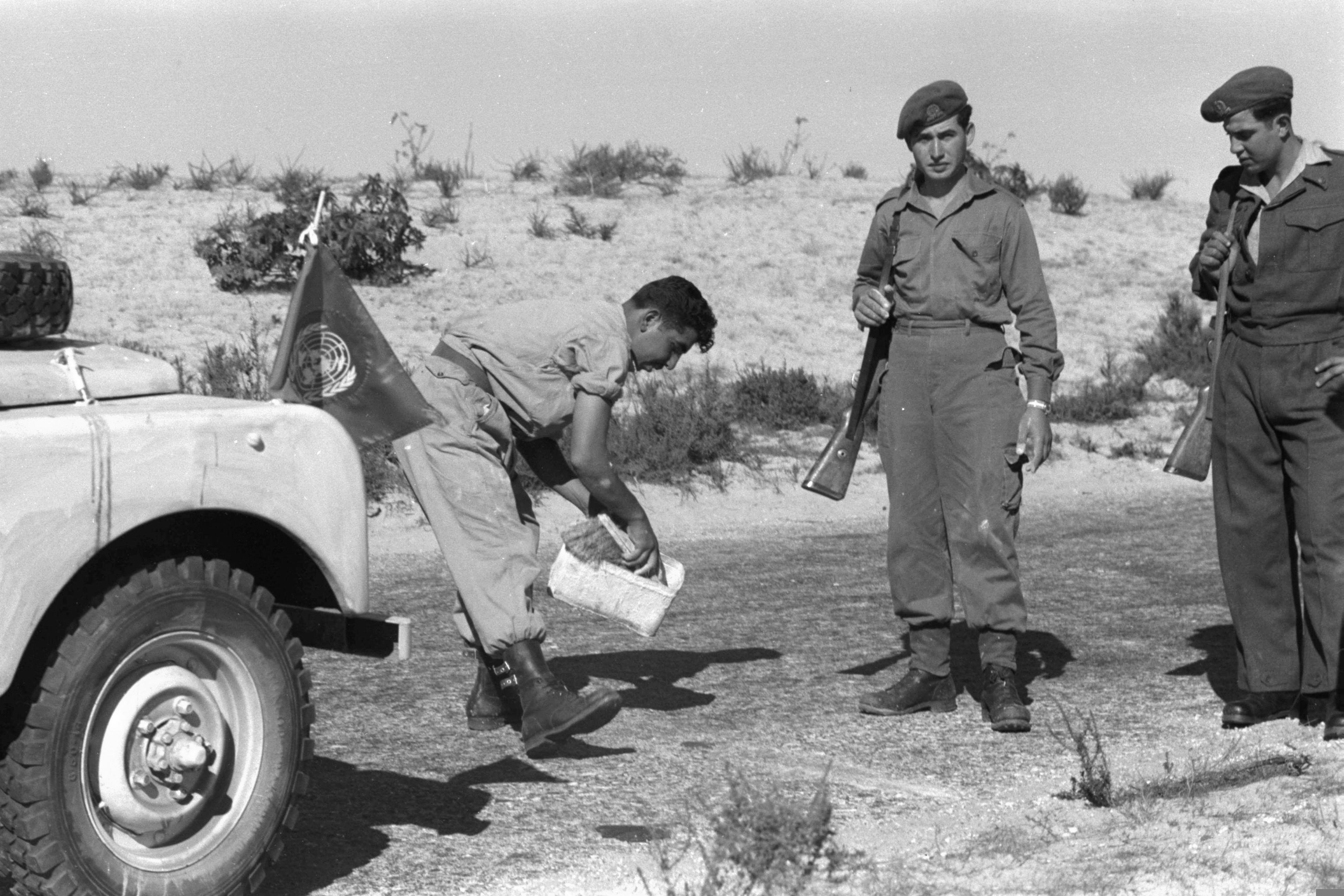 IDF and Yugoslav UN soldiers marking the new withdrawl line between El-Arish and Rafah.